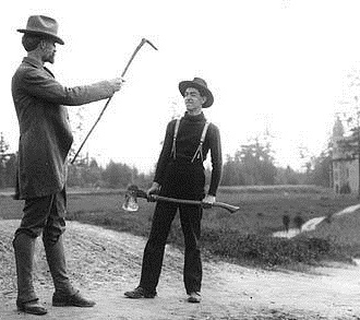 Trevor Kincaid (left) with Edmond S. Meany at Campus Day activities at the University of Washington in 1905.